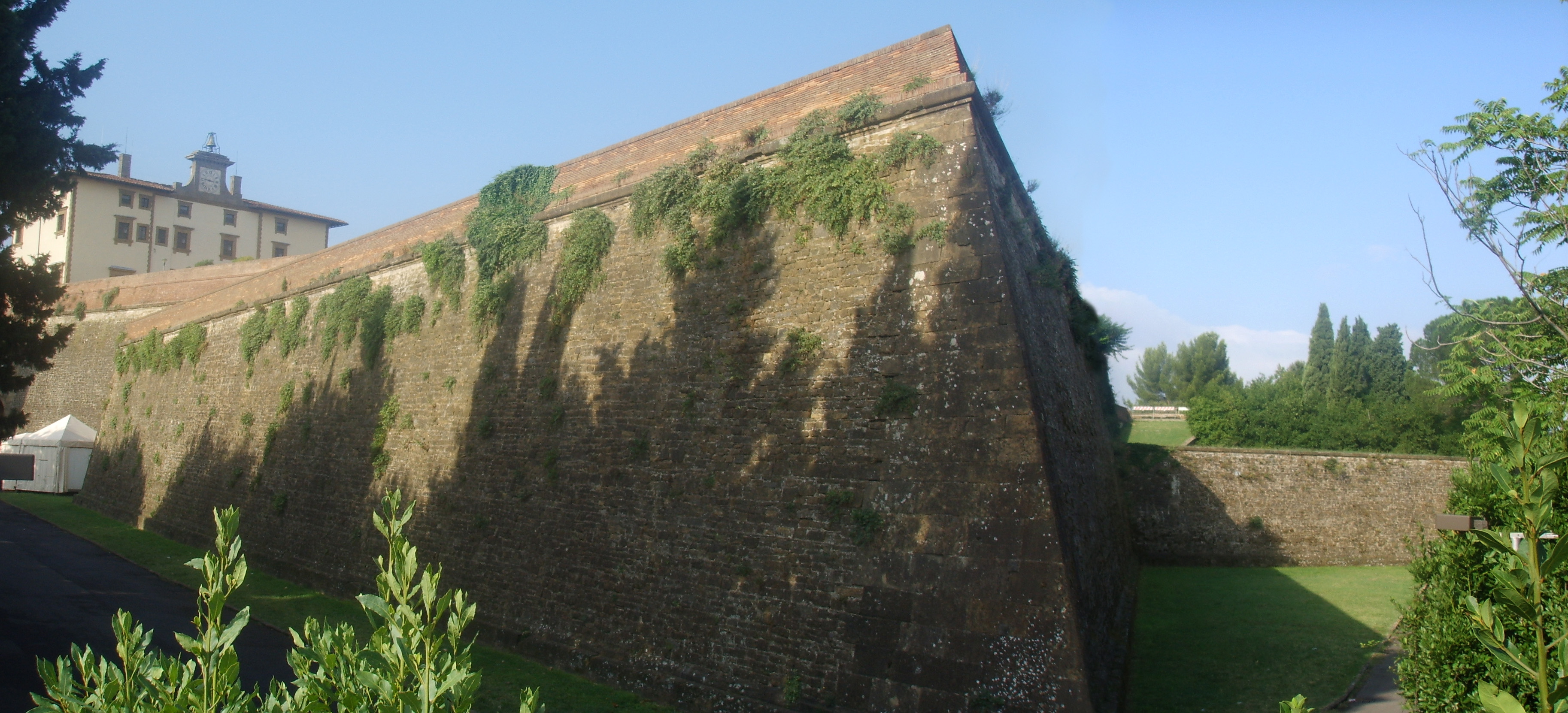 Bastion of Belvedere fortress in Florence, Italy